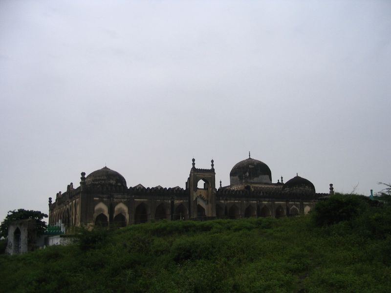 Jama Masjid (14th century) at Gulbarga (Karnataka, India)